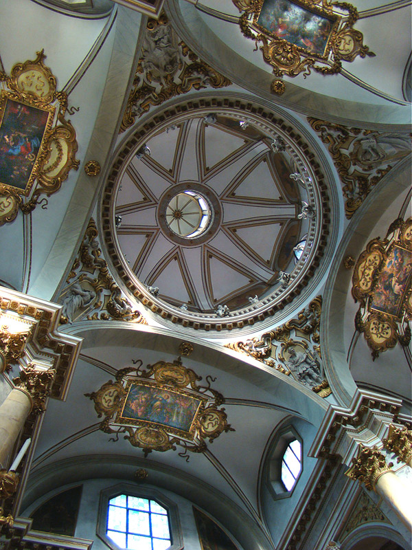 Monte Berico Basilica, Vicenza, Veneto, Italy.